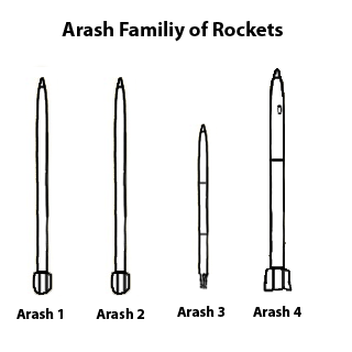 My own drawings of Arash rockets based on images from